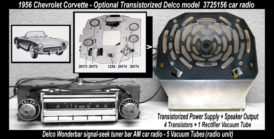 This is a GM Delco Transistorized "Hybrid" (vacuum tubes and transistors) radio model 3725156, which was first offered as an option on the 1956 Chevrolet Corvette car models.